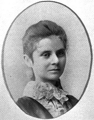 Engraved portrait of American journalist and author Elia Wilkinson Peattie (1862-1935). Cropped version. From Famous American Men and Women: A Complete Portrait Gallery of Celebrated People, Whose Names Are Prominent in the Annals of the Times. Edited by Stanley Waterloo and John Wesley Hanson, Jr. Chicago, IL: Wabash Publishing House, 1896: p. 365.